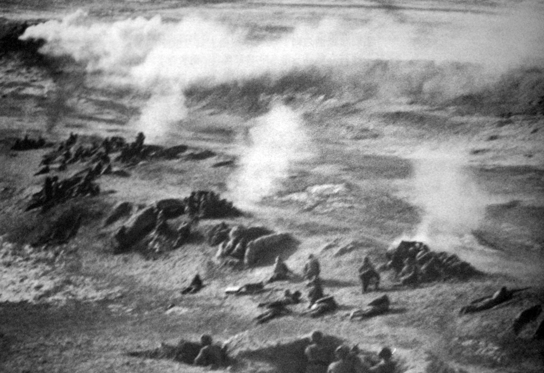 The Battle of Heishan: The People's Liberation Army defending Heishan to prevent the Nationalist reinforcement from reaching Jinzhou during the Battle of Jinzhou